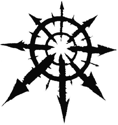 The Chaos Star of Chaos Undivided in Warhammer 40,000